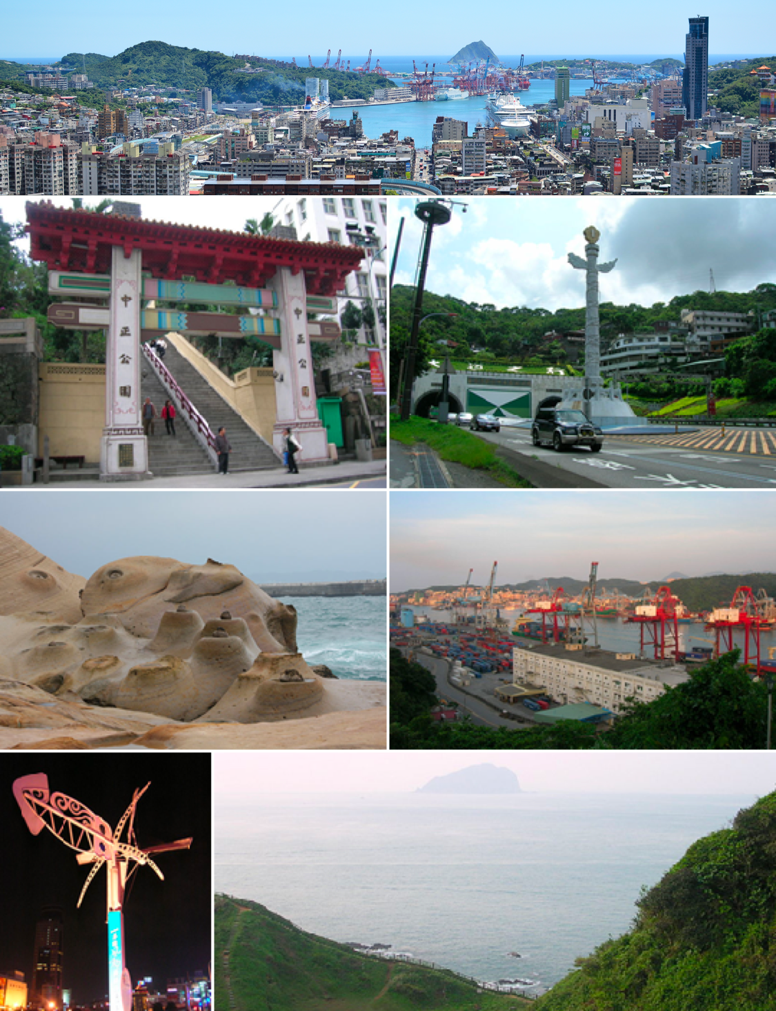 Montage of various Keelung City images. 中文（台灣）: 基隆市的蒙太奇。